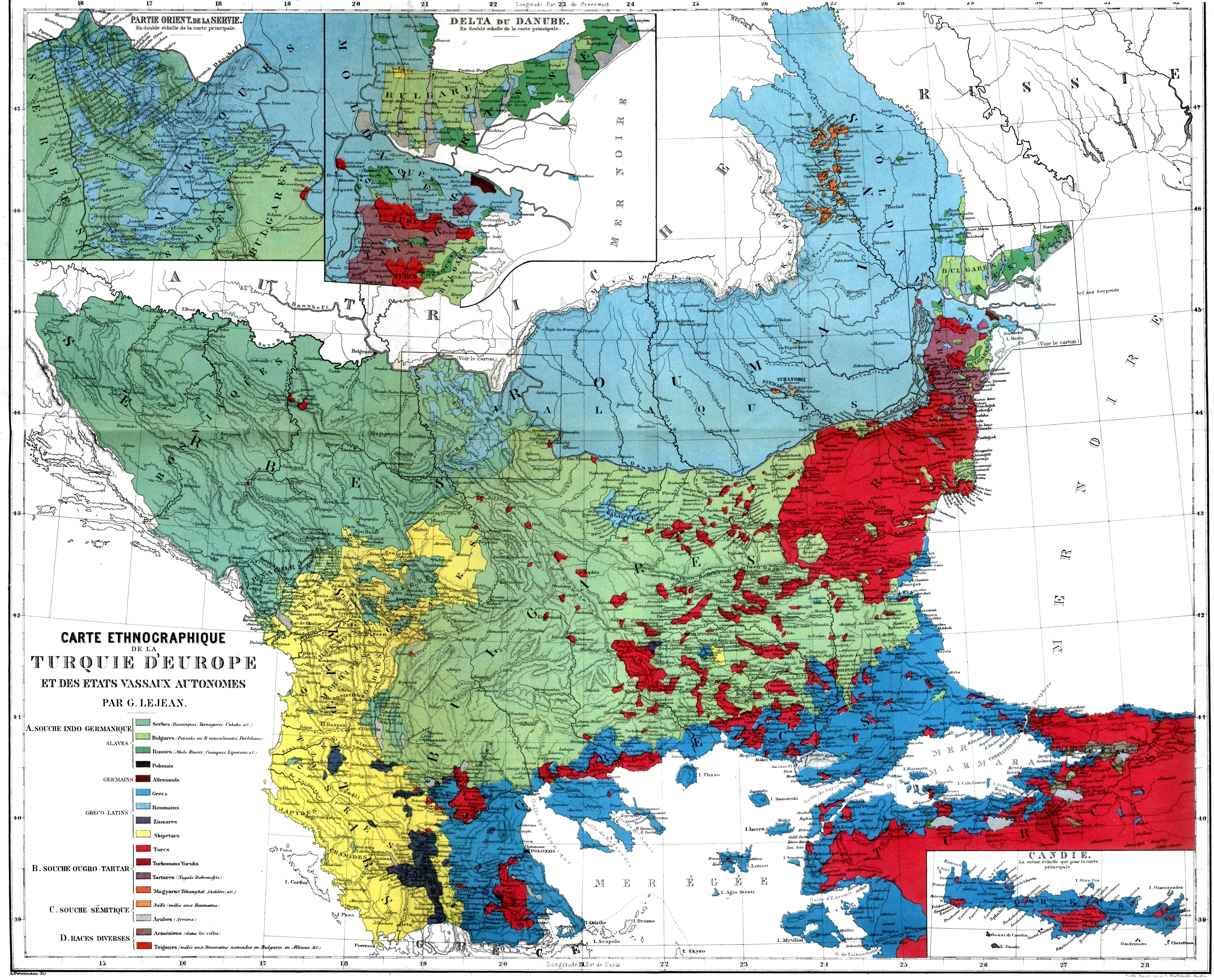 Guillaume Lejean's Ethnic map of European Turkey and its vassal states.